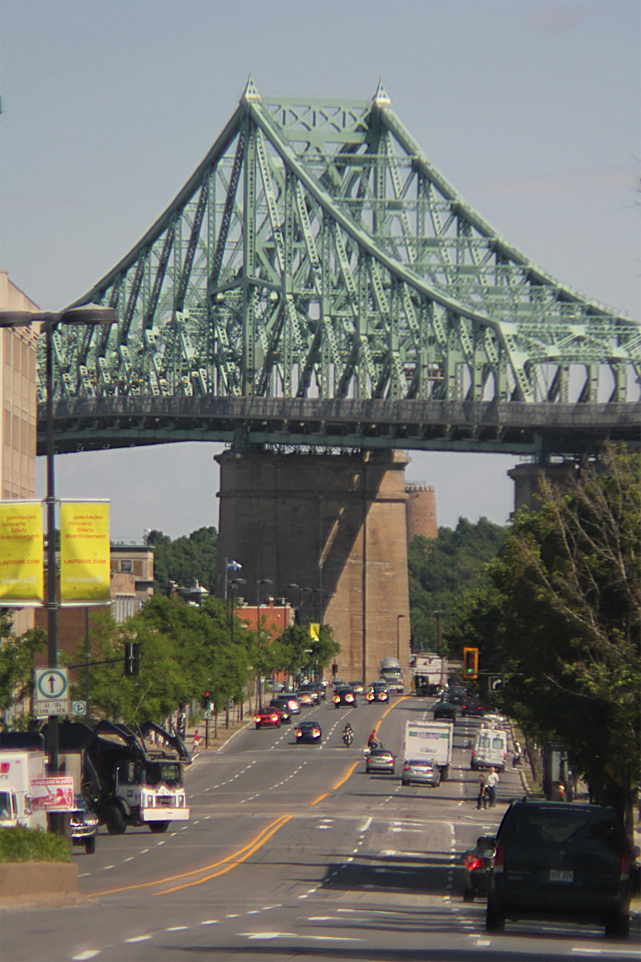 Jacques-Cartier Bridge seen from De Lorimier Avenue.